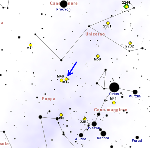 M47